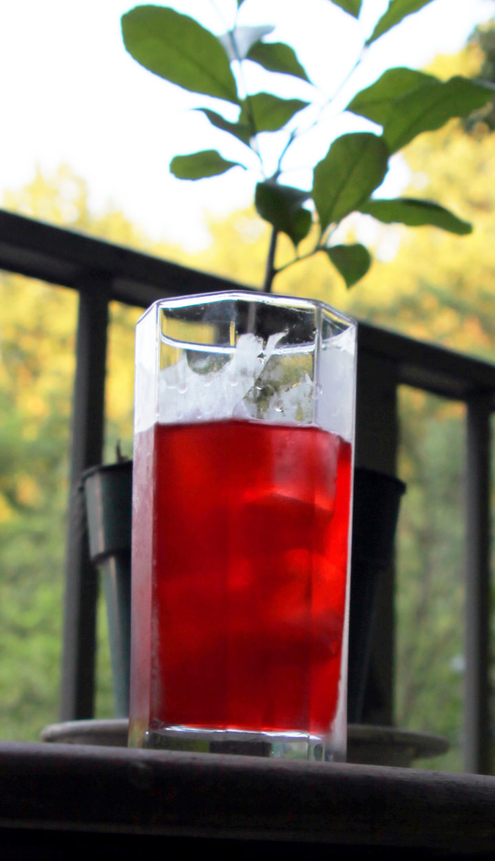 A cocktail known as an "Alabama Slammer": 1 oz. amaretto 1 oz. Southern Comfort 1/2 oz. sloe gin Dash lemon juice Pour over ice cubes and stir. My little lemon tree is in the background.